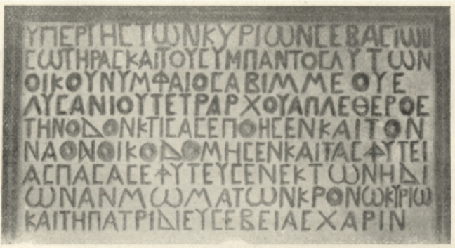 Greek inscription mentioning the tetrarch Lysanias discovered in Syria 18 miles from Damascus. Possibly to be identified with the tetrarch of the same name mentioned in the Gospel of Luke (3:1).